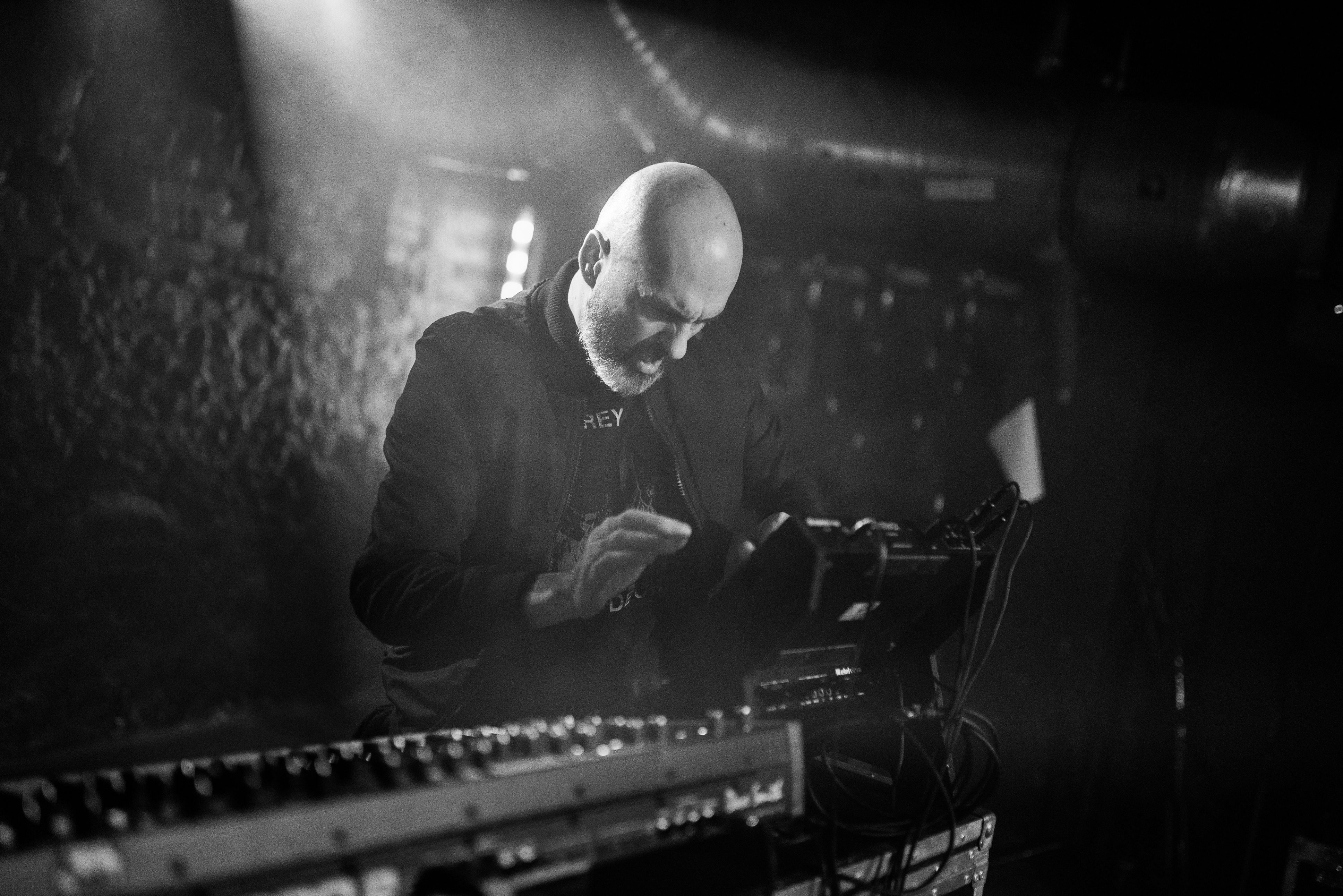 Youth Code during the concert in Warsaw, 2018.